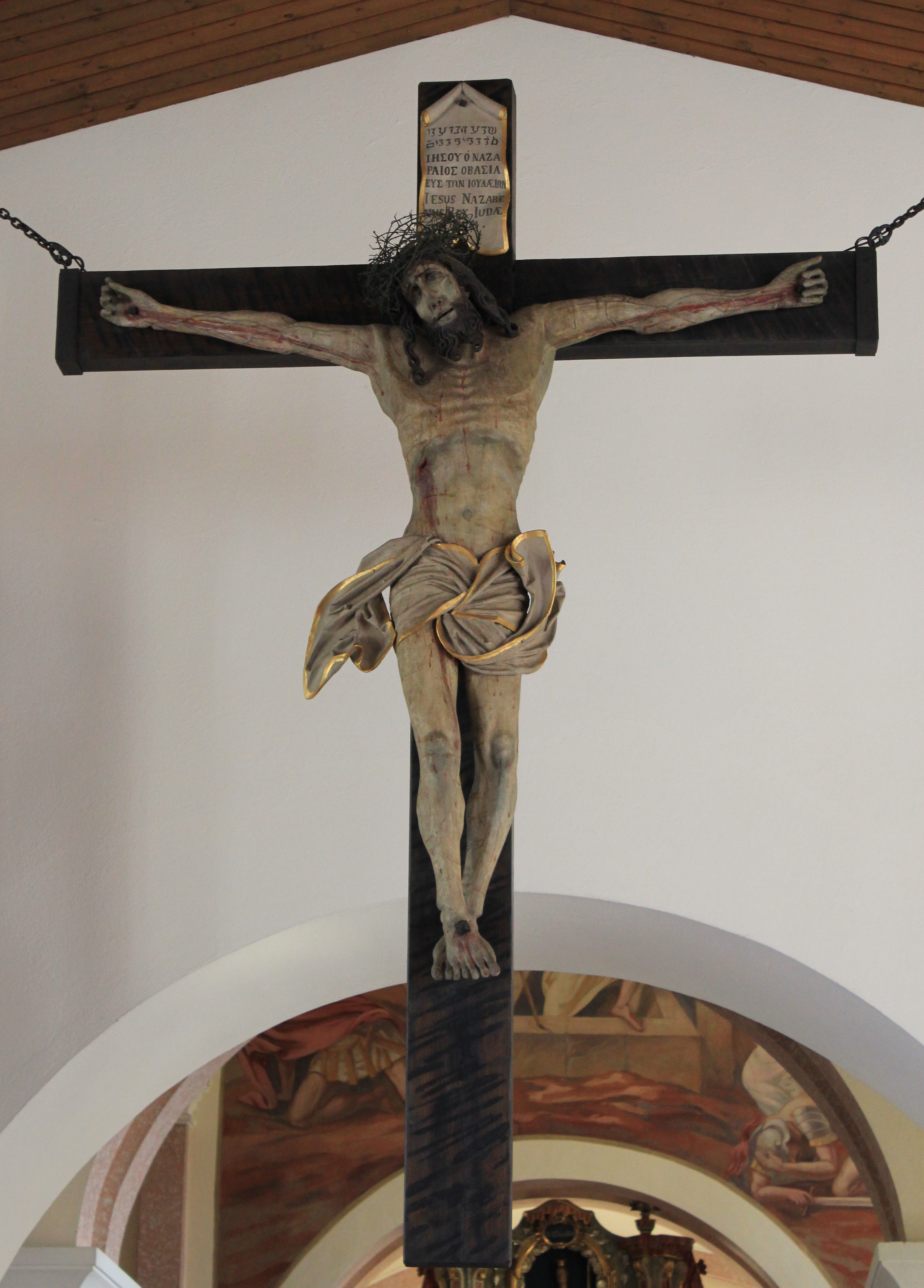 Parish church of Sankt Kanzian am Klopeiner See